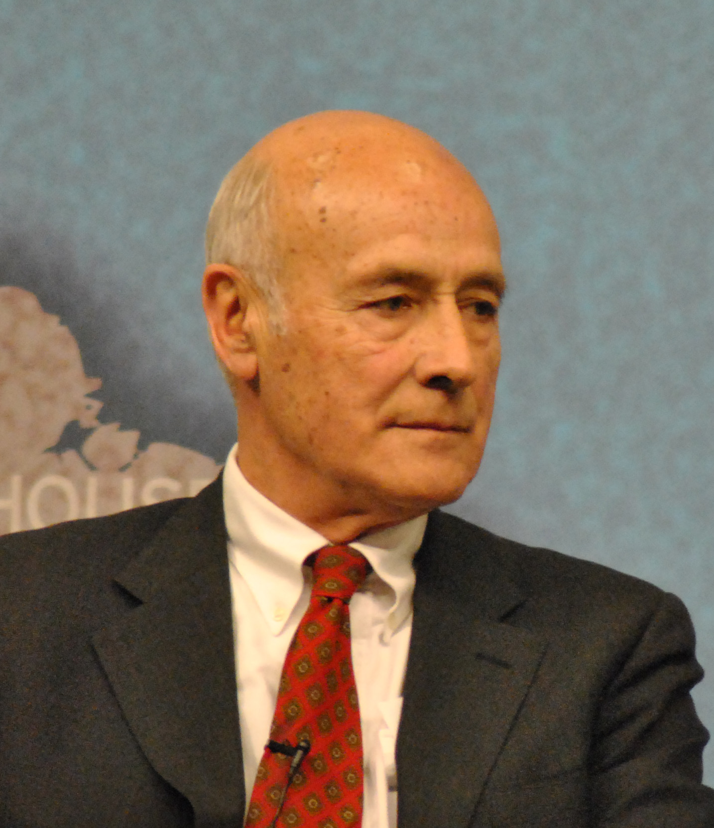 US political scientist Joseph S. Nye Jr. at Chatham House.